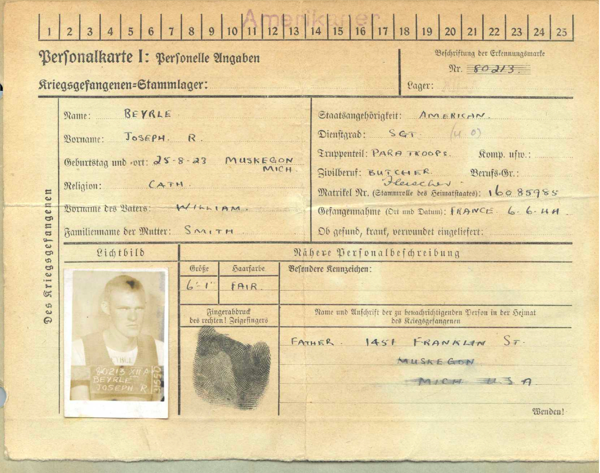 POW Identification Card of Joseph R. Beyrle from Stalag XII-a, July 1944